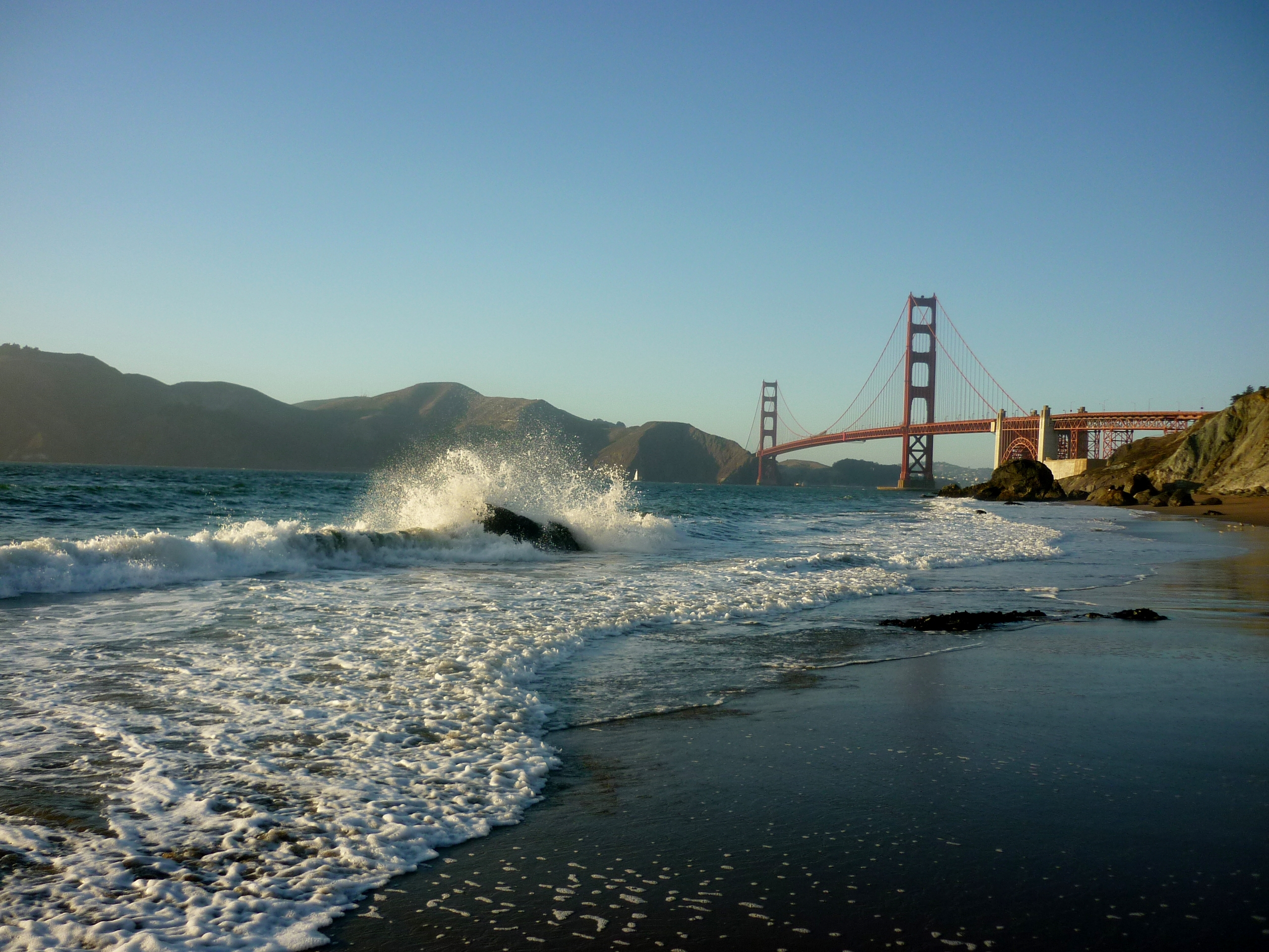 Golden Gate Bridge, San Francisco (from Baker Beach)